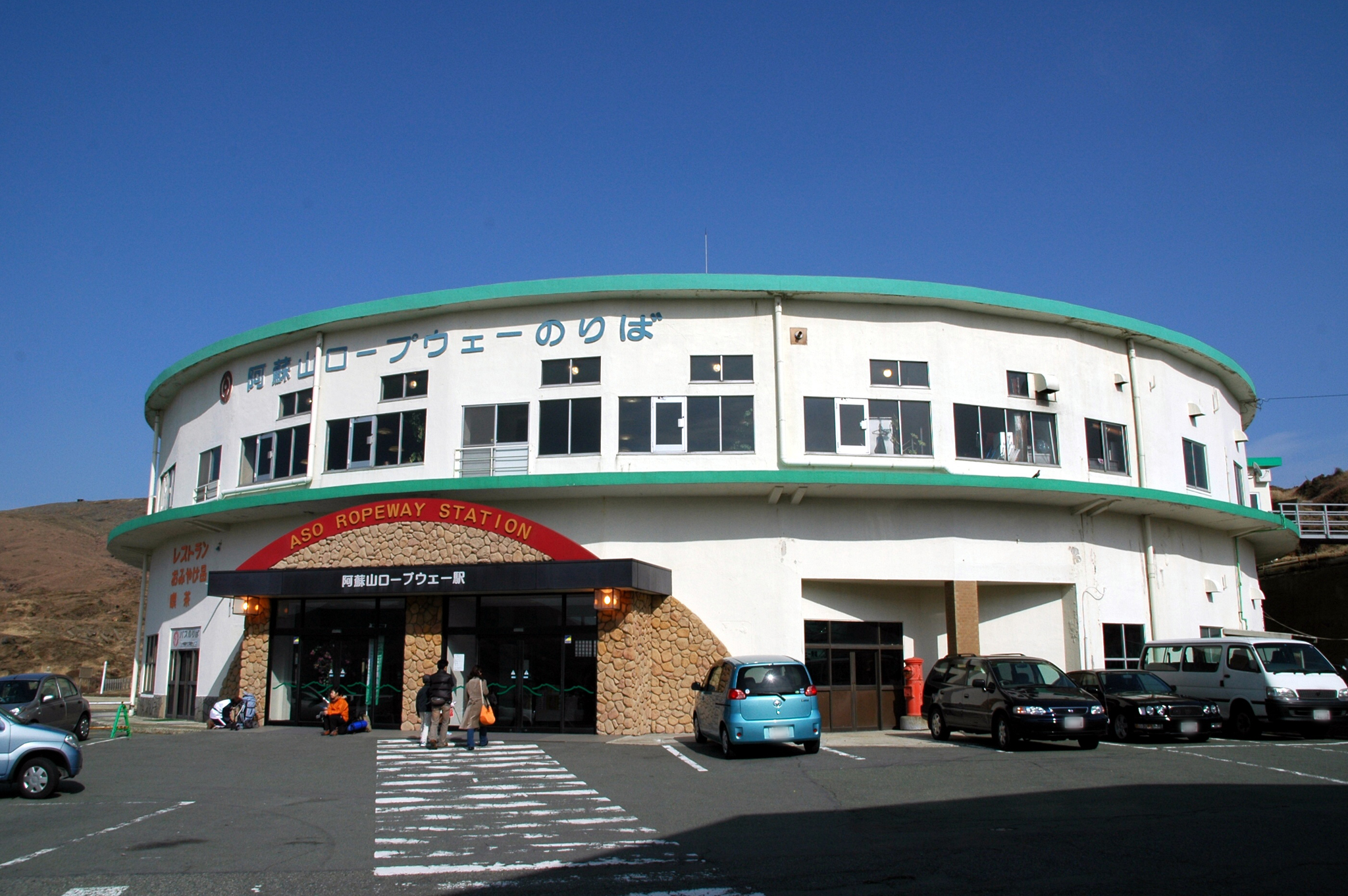 Mt.Aso ropeway Terminal